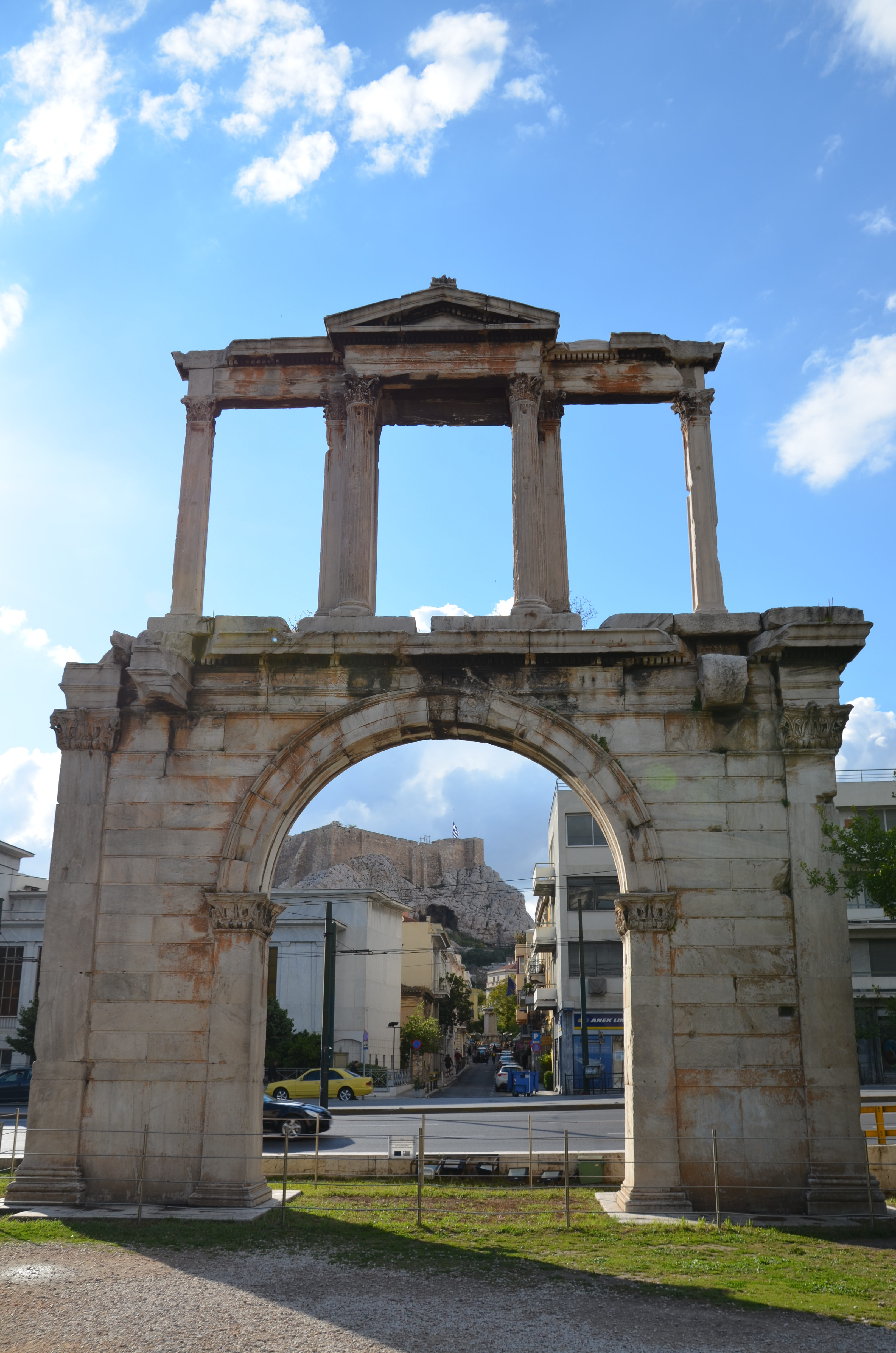 Arch of Hadrian, southeast side (facing the Olympeion), Athens